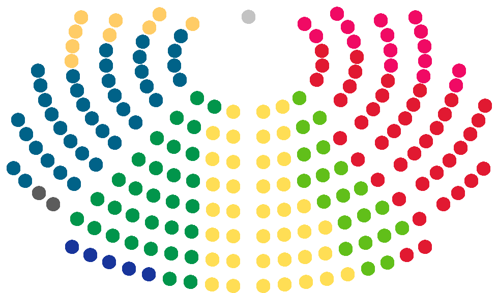 Seating plan of the Parliament of Finland, 2011